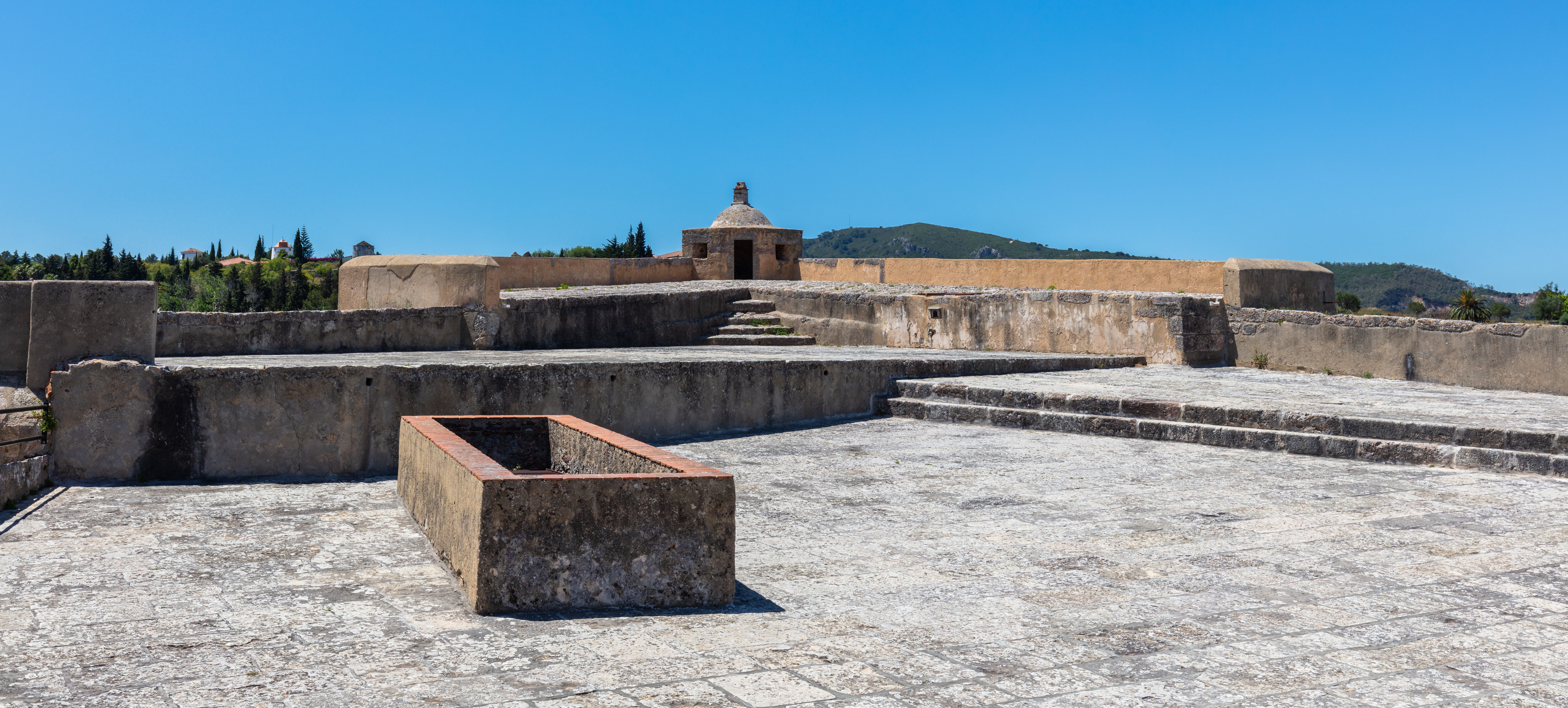 Fortress of São Filipe, Setúbal, Portugal